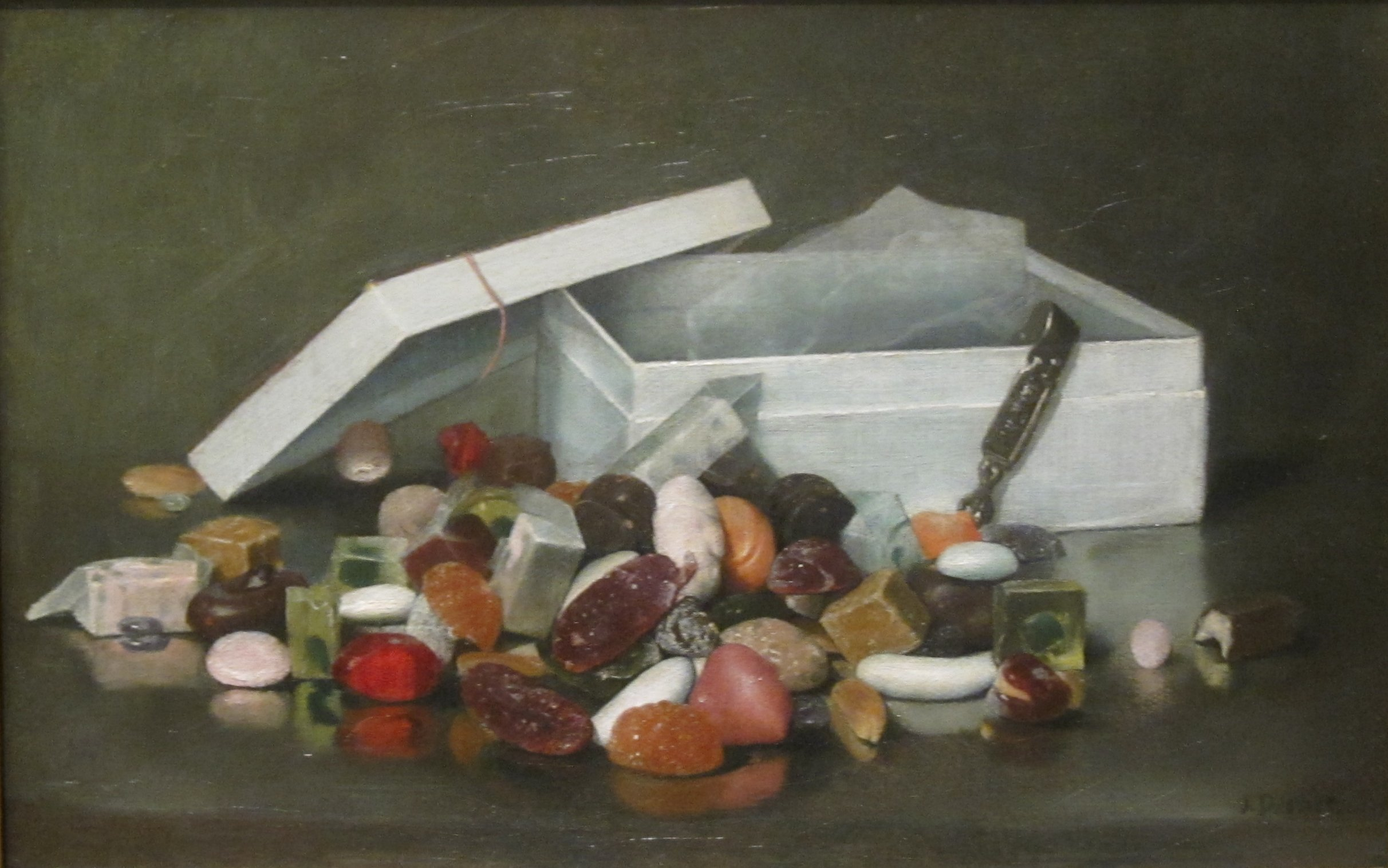 Upset, oil on canvas painting by Joseph Decker, 1887, De Young Museum